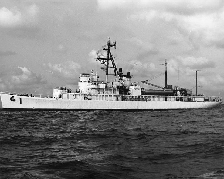 The United States Navy flagship USS Valcour (AGF-1) shown in her final configuration, in a photograph released in November 1972.